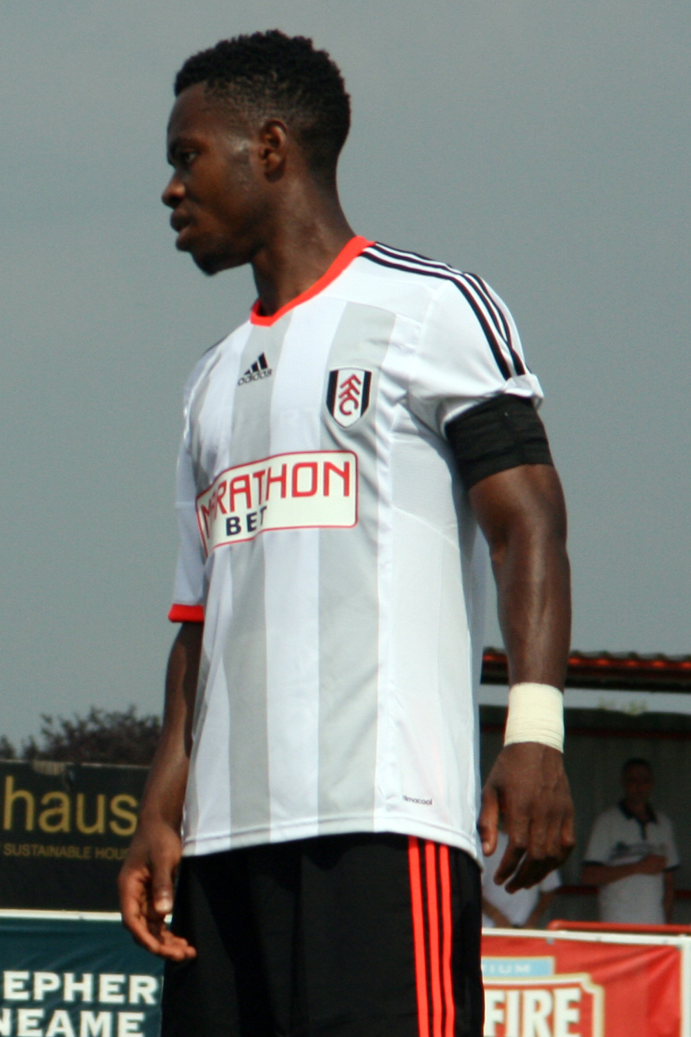 Plumain playing for Fulham U21s against Walton Casuals in July 2014